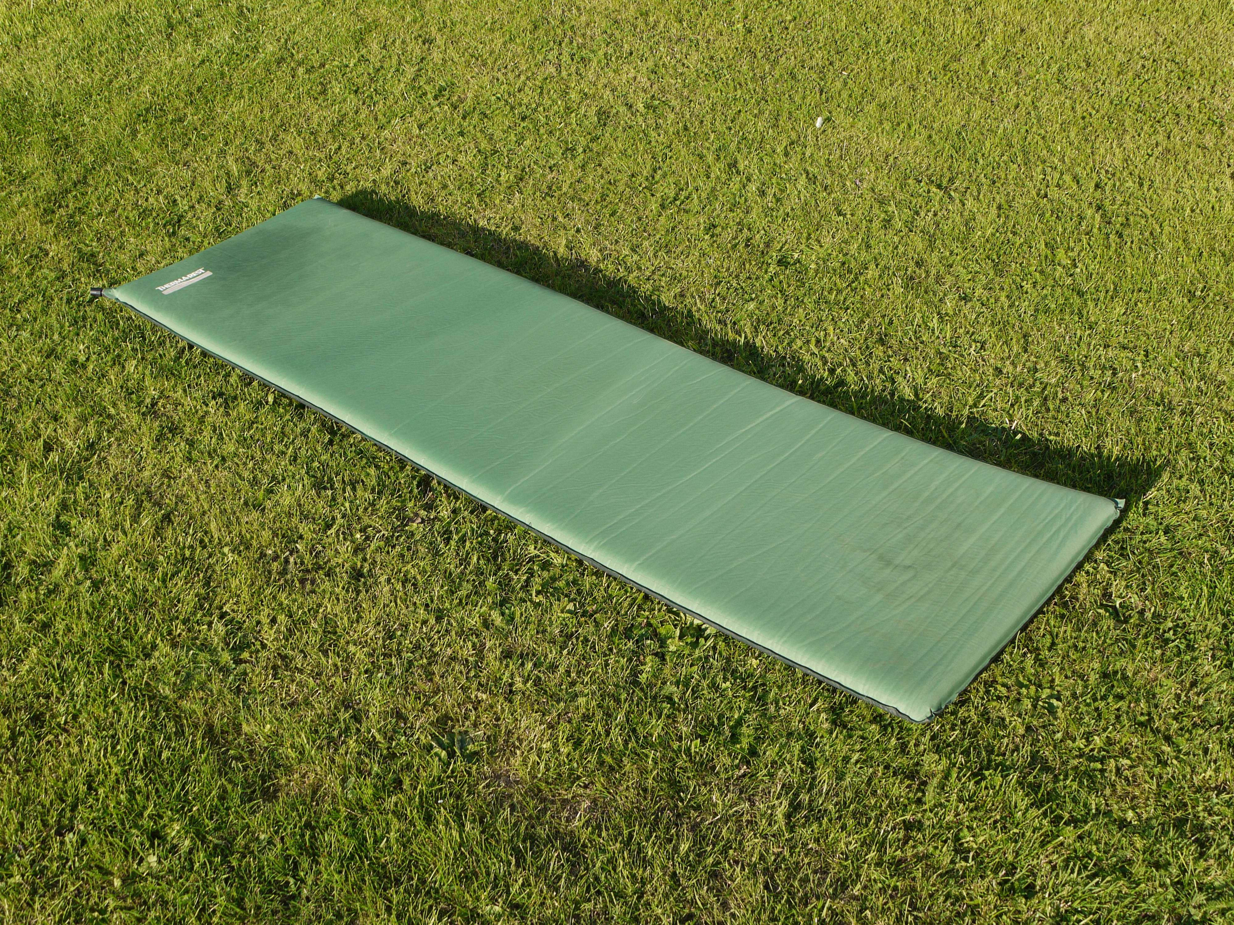 Photo of a Therm-a-Rest